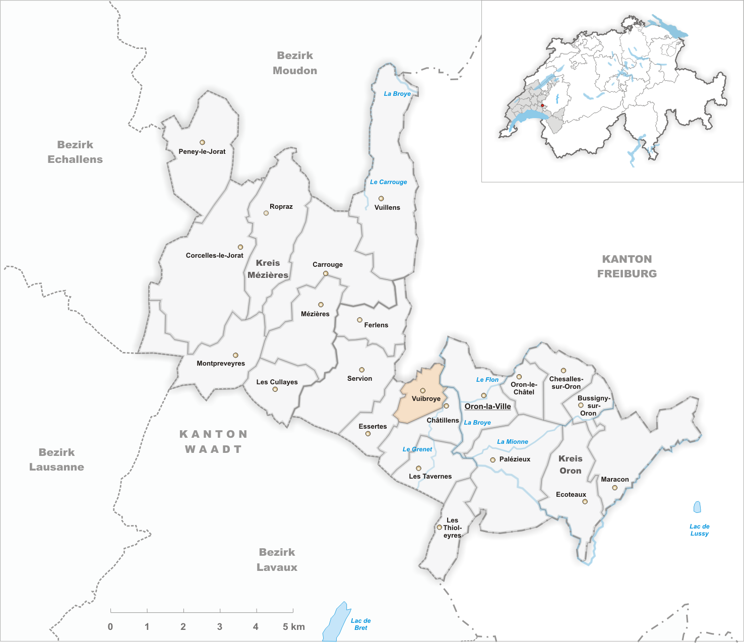 Municipality Vuibroye